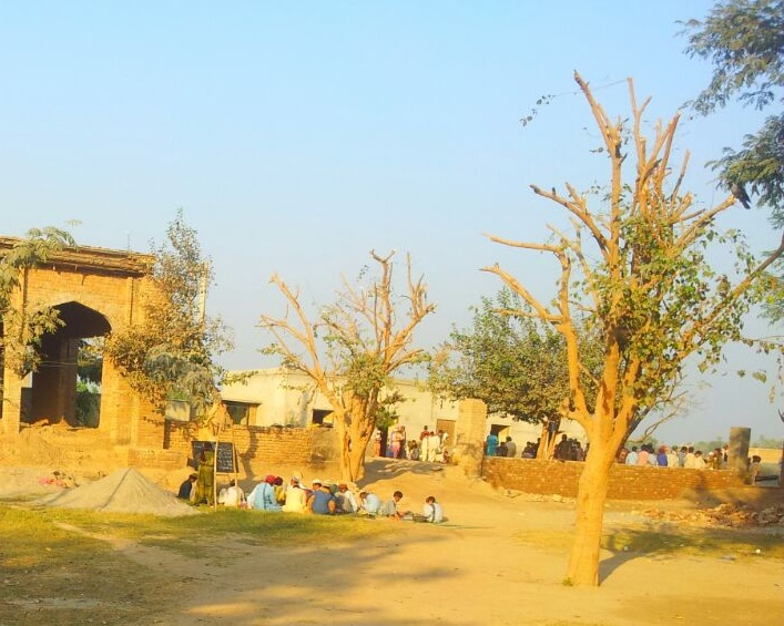 here is the primary government school of my village.